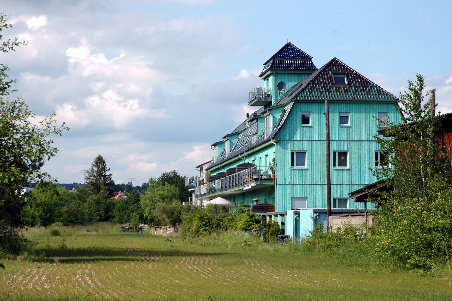 former warehouse at abandoned train station in Hardheim.